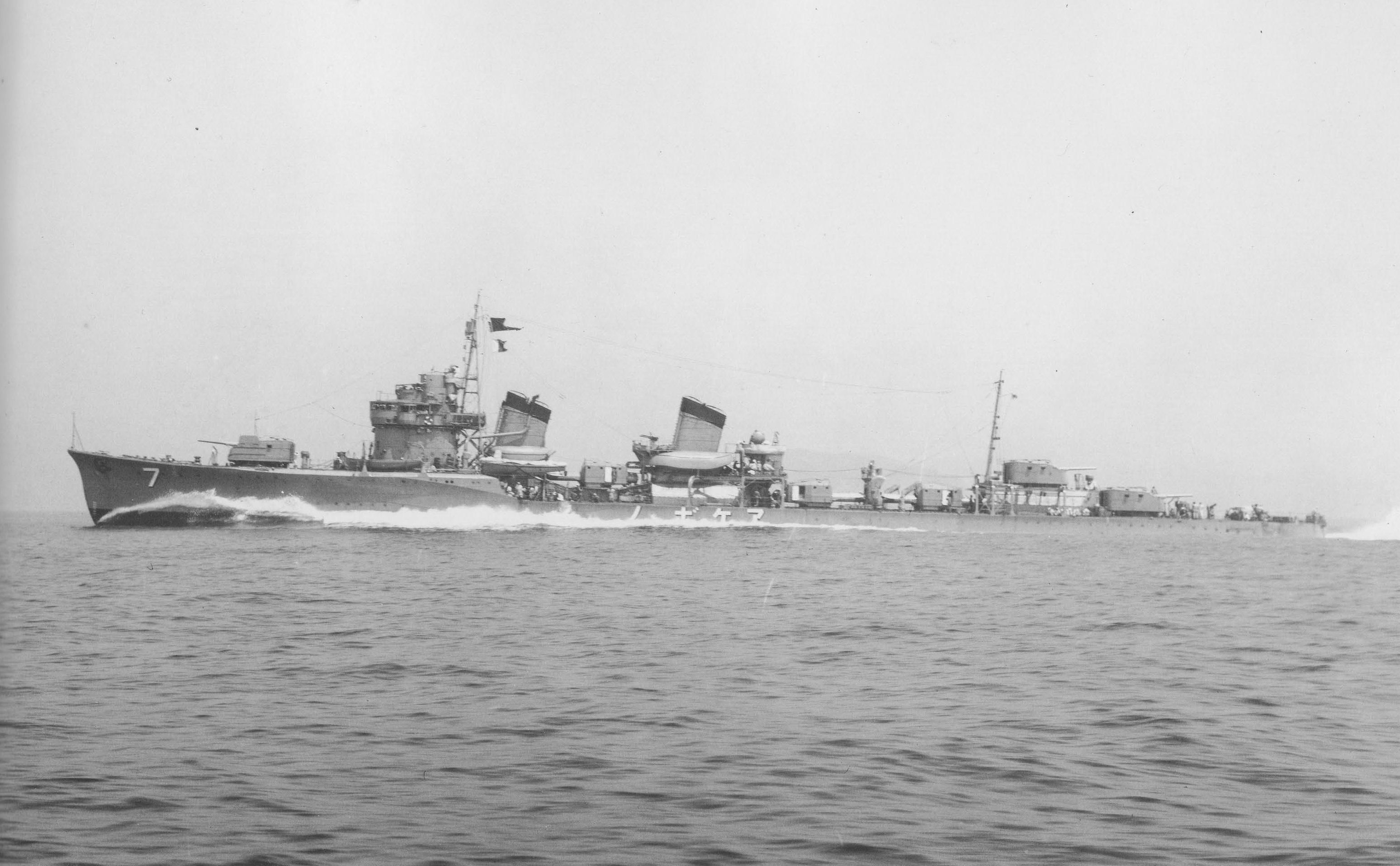 Imperial Japanese Navy destroyer Akebono, the second Japanese warship to bear that name.